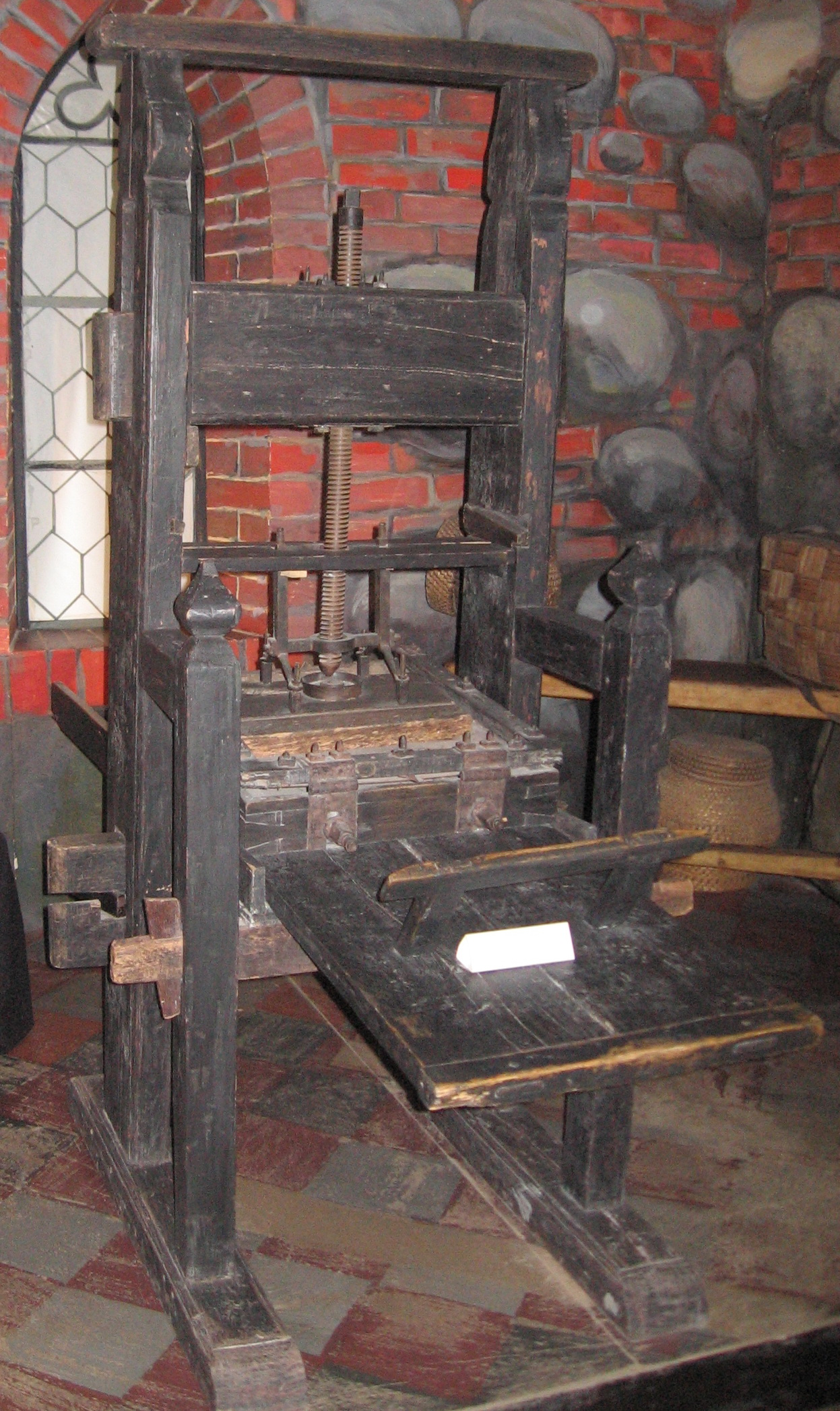 Printing machine of Johanes Gutenbrg